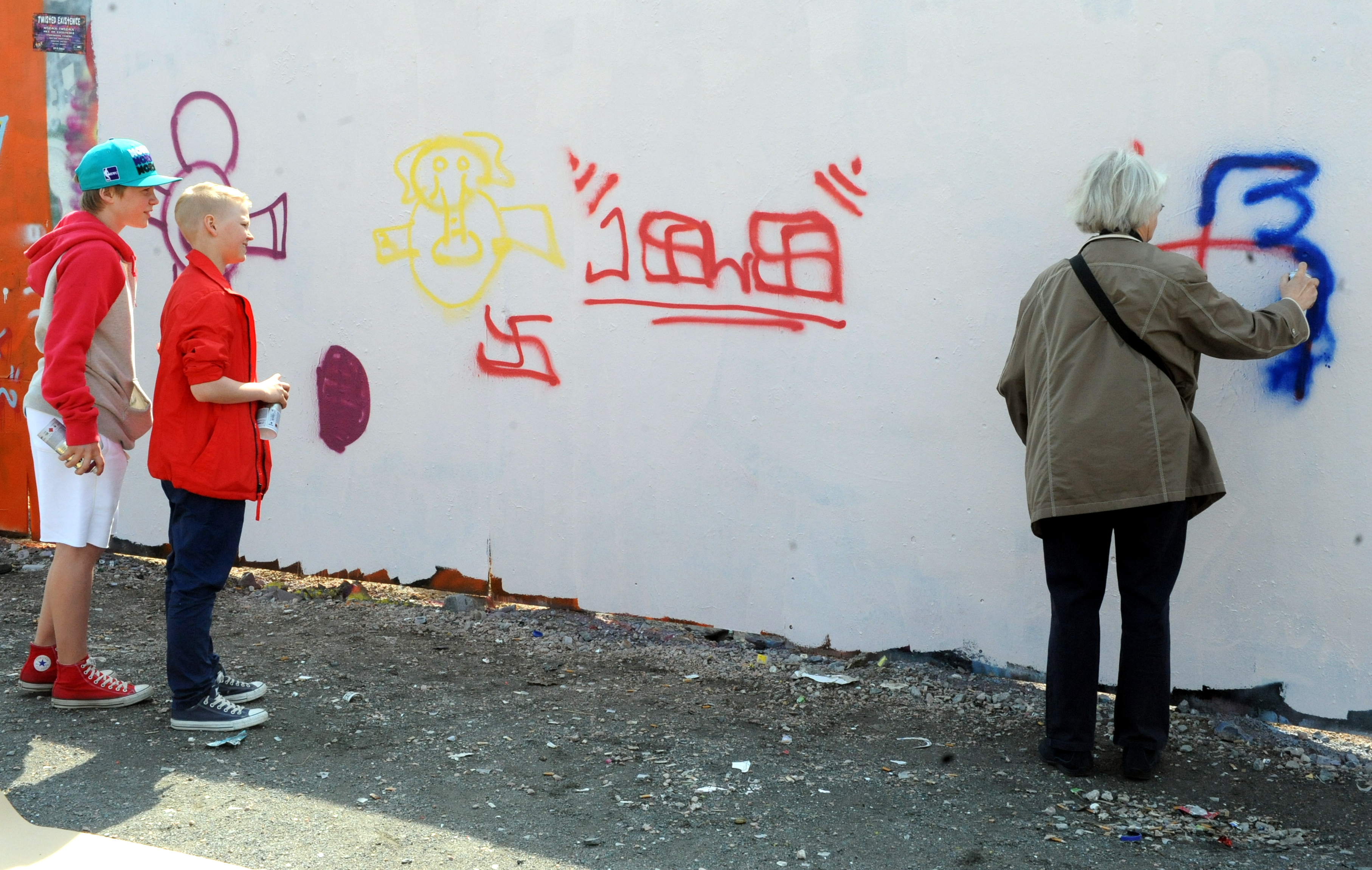 Irmela Mensah-Schramm at graffiti workshop in Suvilahti, Helsinki.